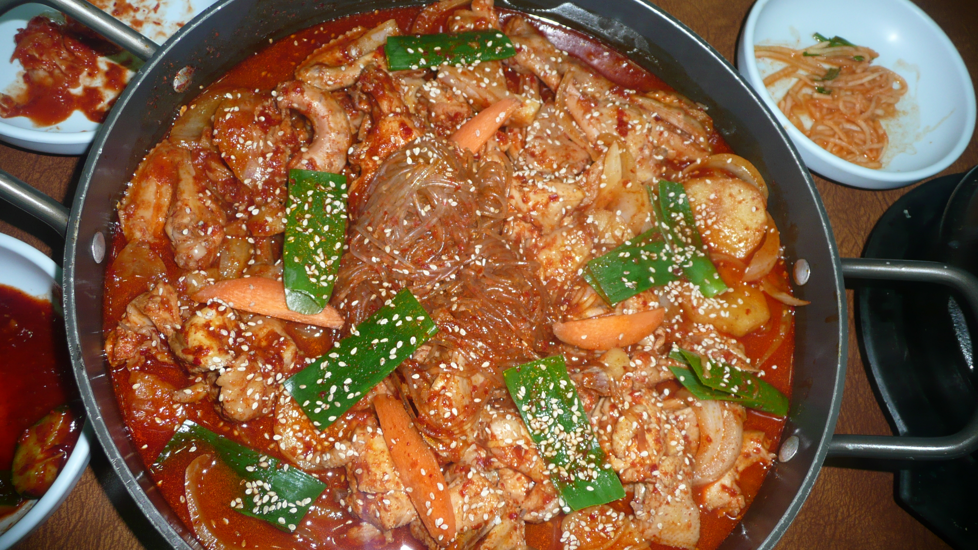 Daktoritang - A spicy chicken and potato stew in a restaurant in Daegu, Korea